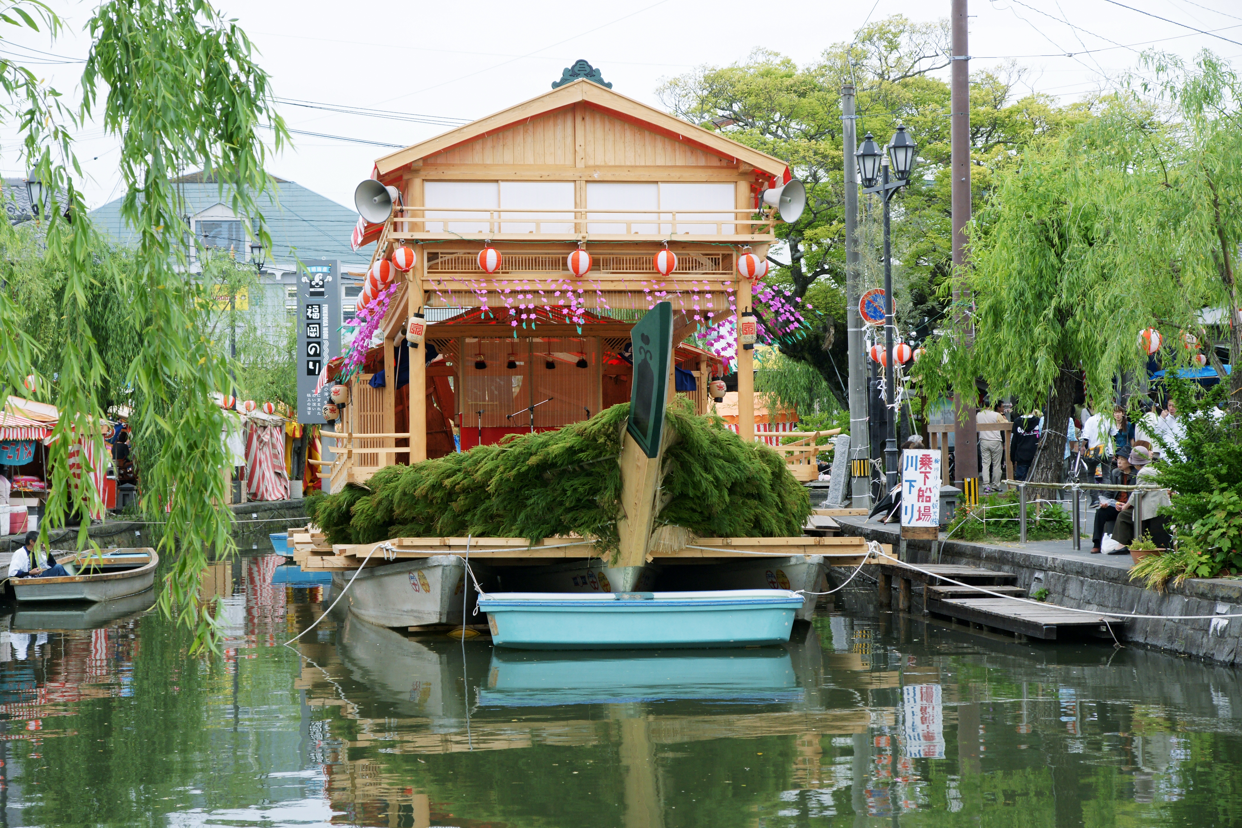 Okinohata-suitengu, Yanagawa, Fukuoka prefecture, Japan